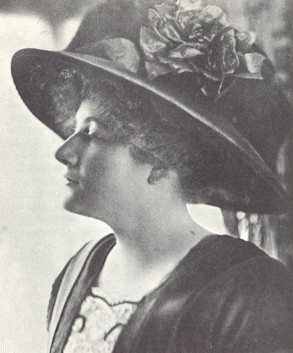 Dorothy Arnold, disappeared 1910